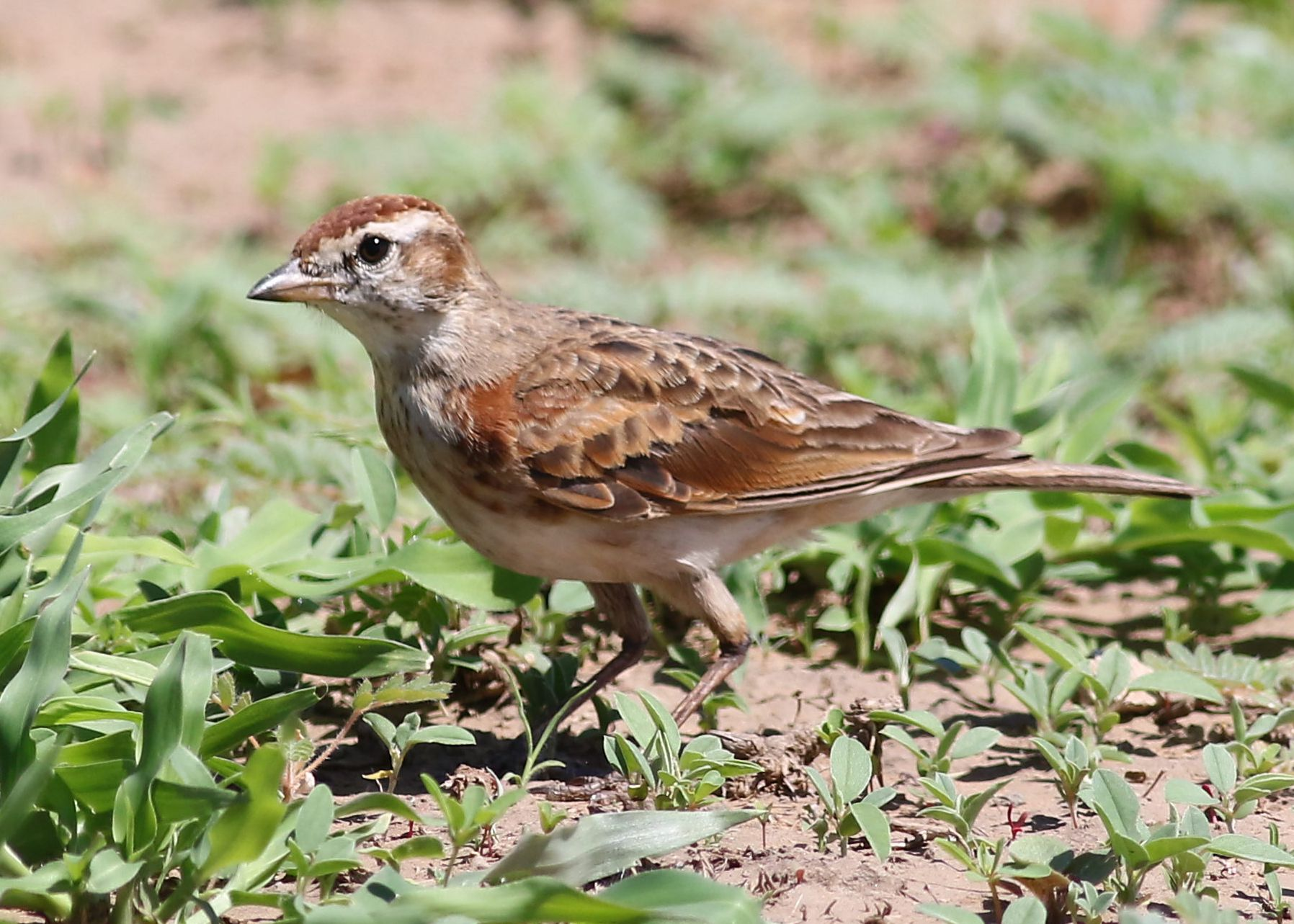 Red-capped lark, Calandrella cinerea, at Mapungubwe National Park, Limpopo, South Africa